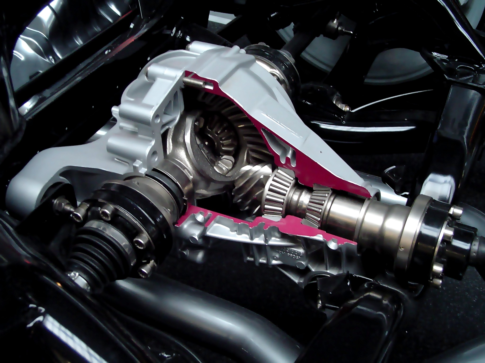 Modern differential, cut away to show structure; from a Porsche Cayenne. Two tapered-roller bearings on the right side are for the drive shaft.